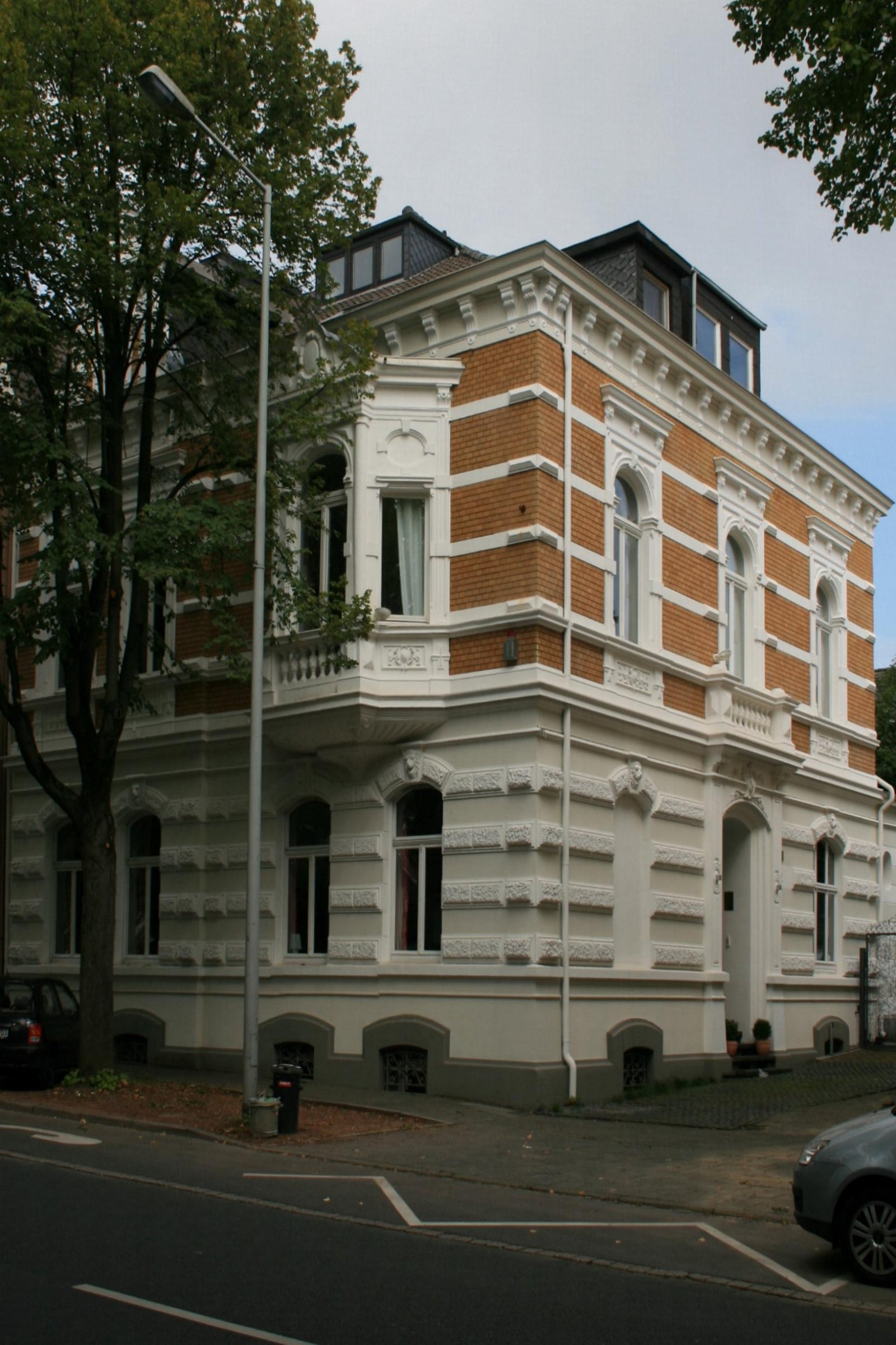 Cultural heritage monument No. T 005 in Mönchengladbach